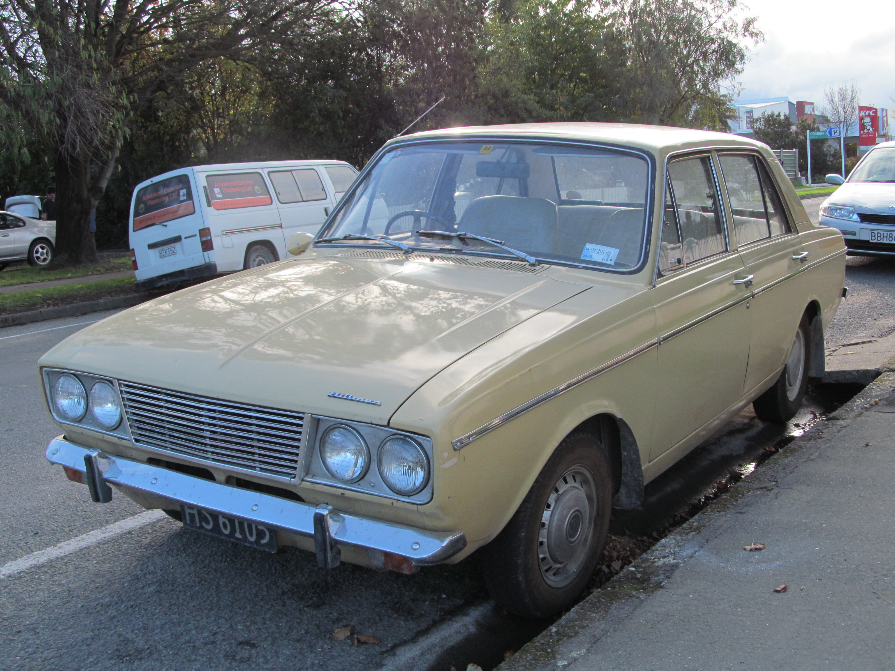 HS6105 I was very pleased to see this, as it is a very rare GL. The GL replaced the Singer Vogue locally and had the quad headlamp and grille set-up from the Humber Sceptre, the top-line model which was not officially available in NZ. This was an extremely tidy example.